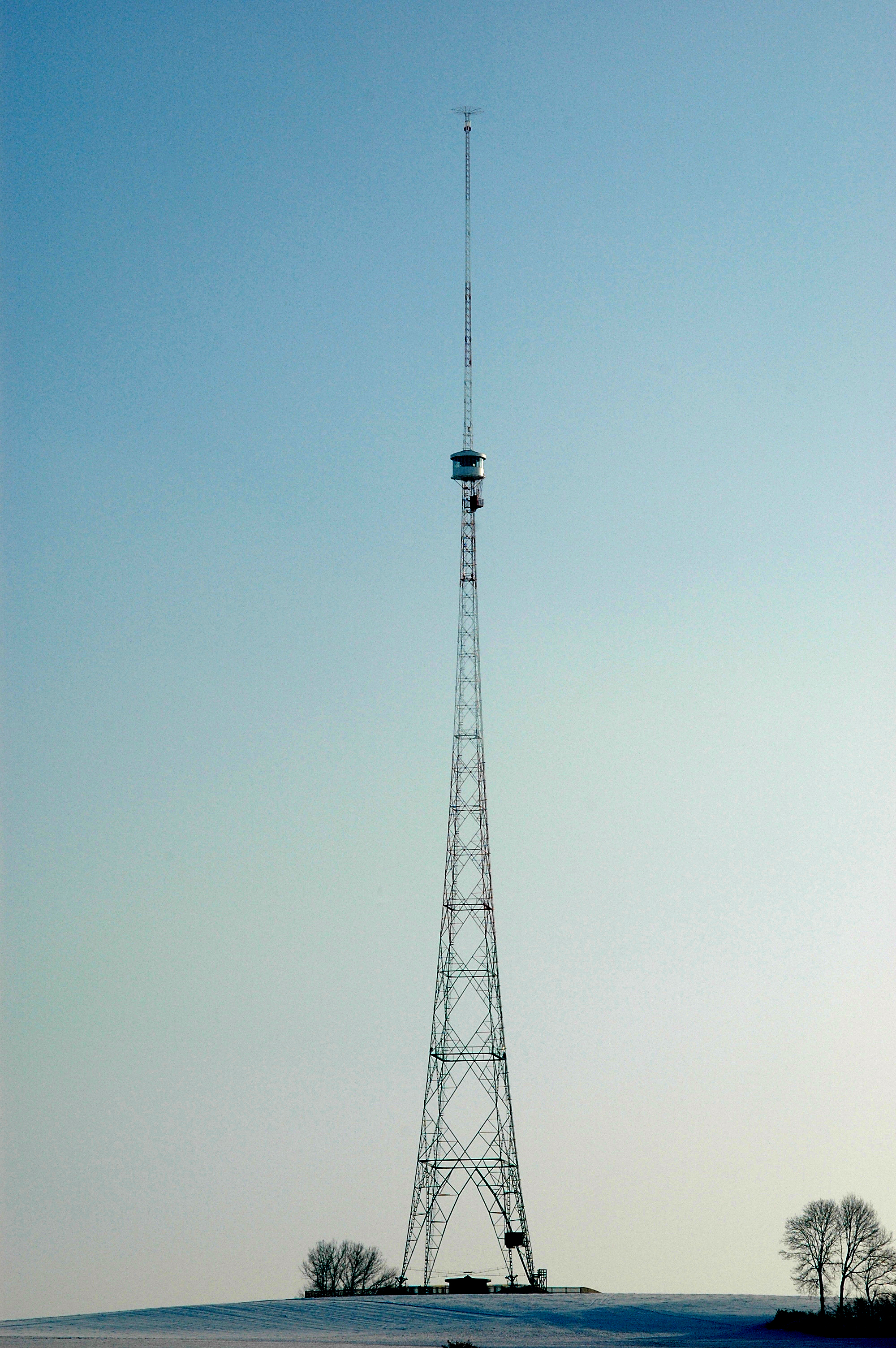 Blosenbergturm near Beromünster, Lucerne, Switzerland